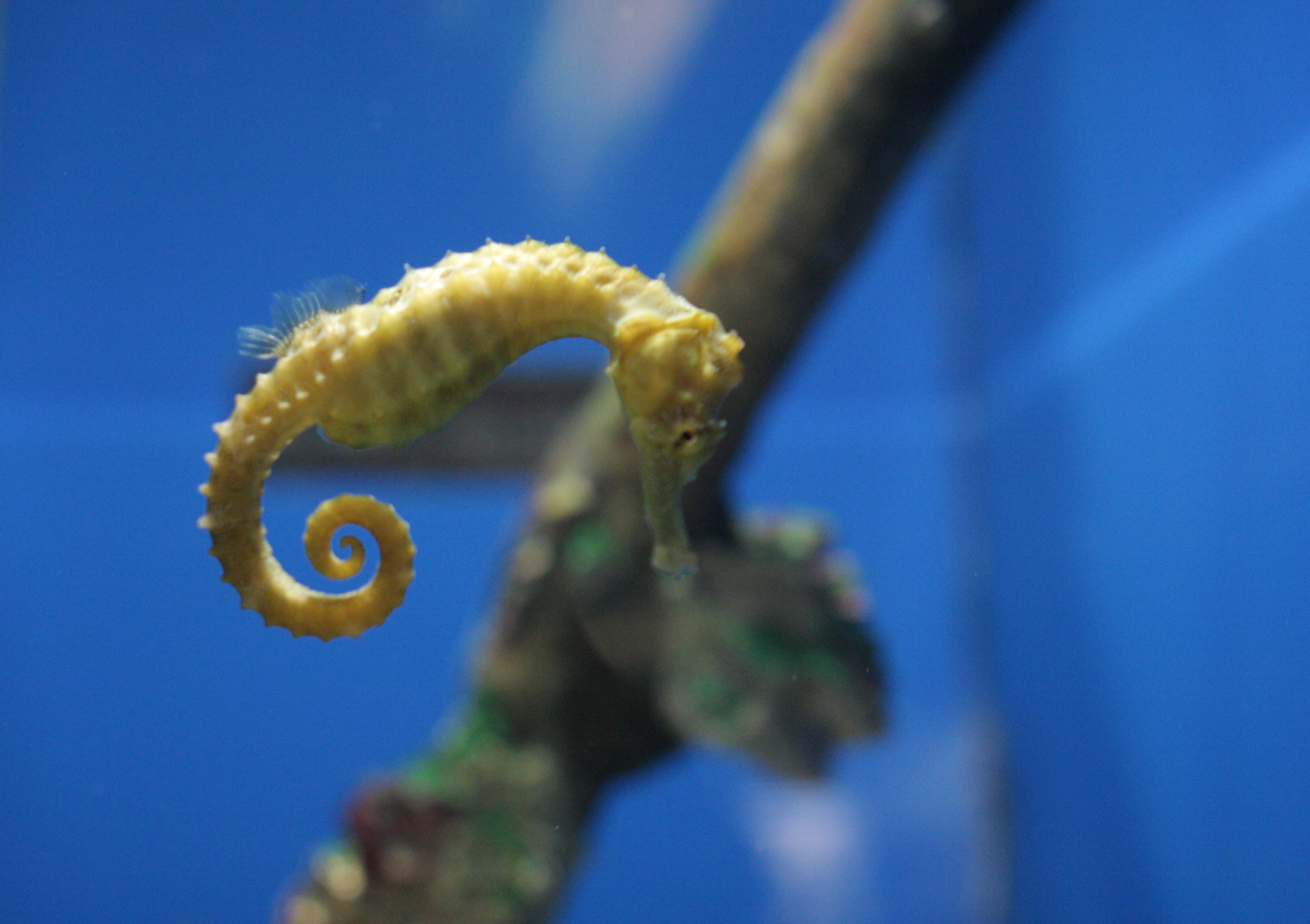 Lined Seahorse (Hippocampus erectus) at the Florida Aquarium.